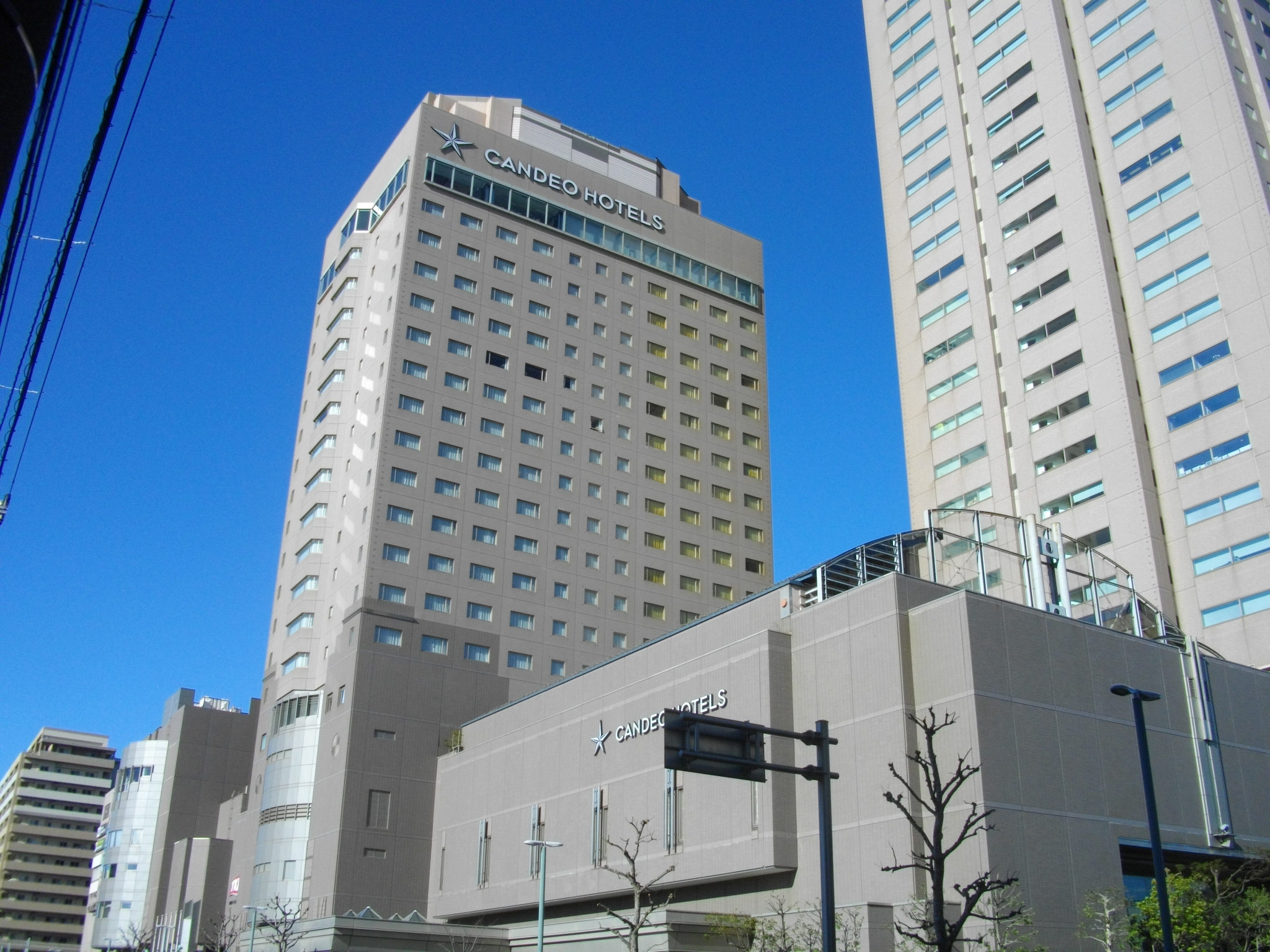 Candeo Hotels Chiba